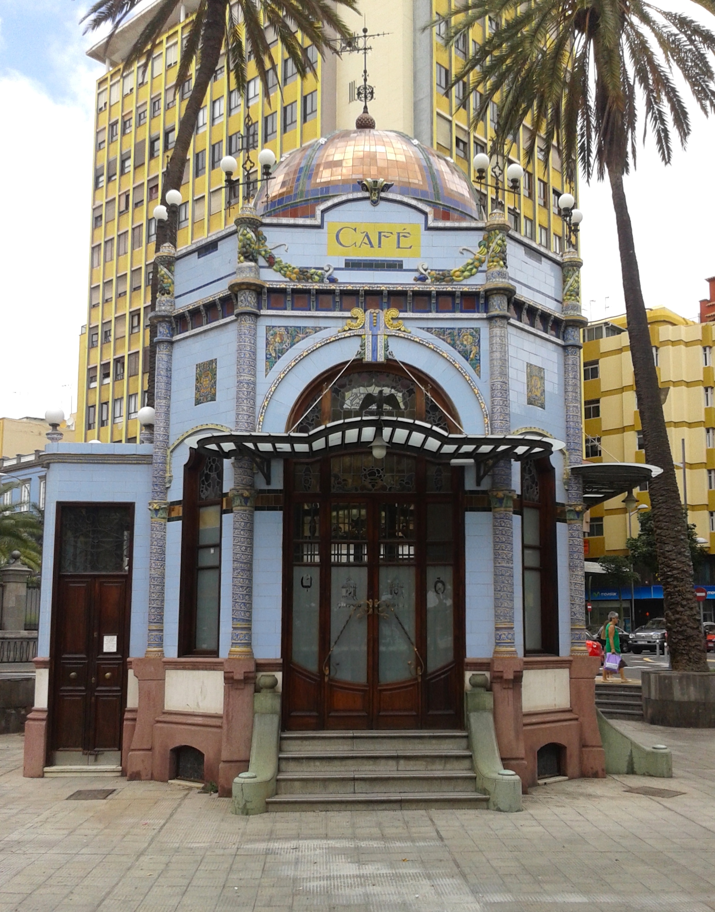 Late Art Noveau kiosk (1923), Las Palmas de Gran Canaria, Gran Canaria, Canary Islands.